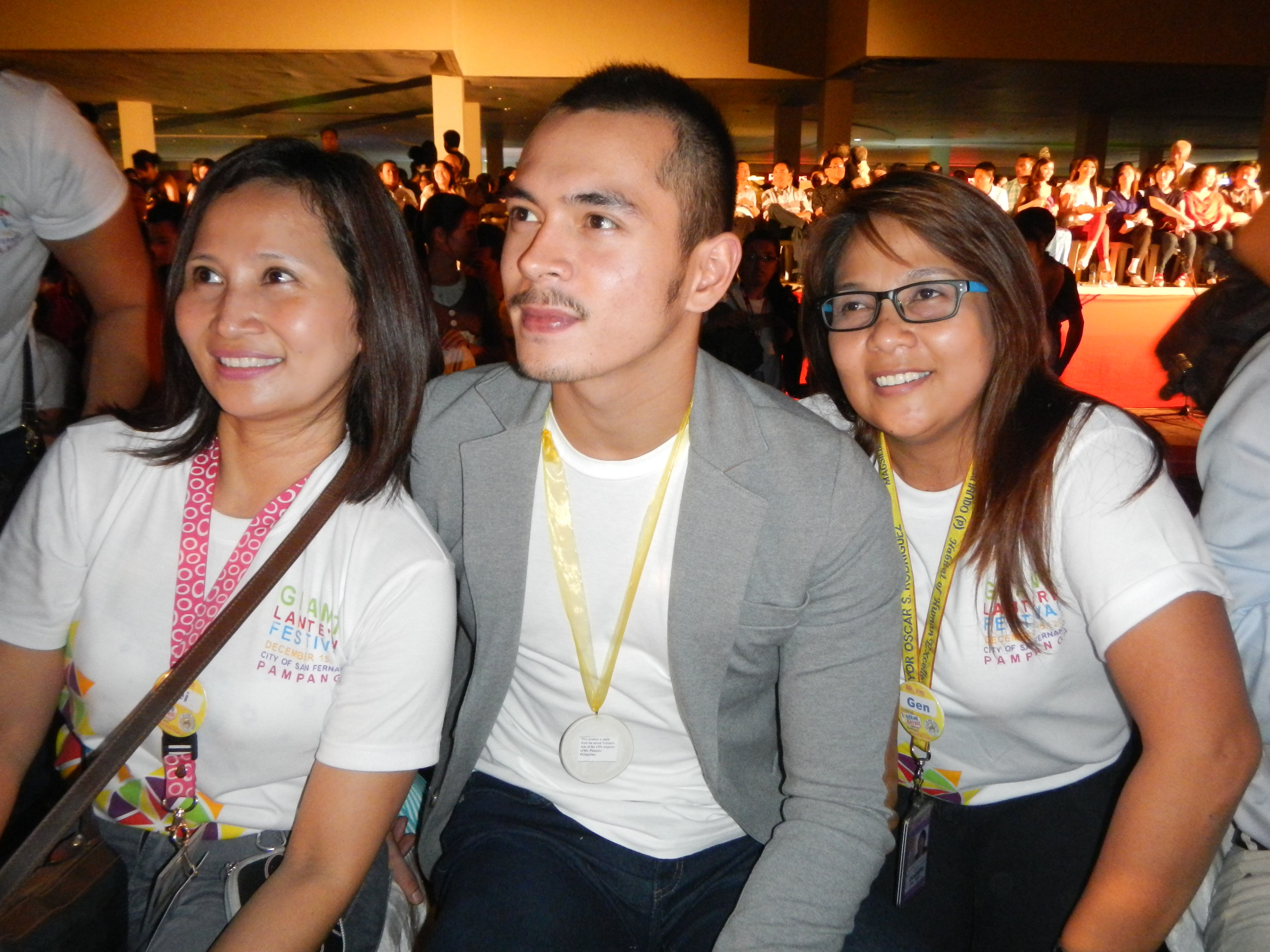 Jake Cuenca (Juan Carlos "Jake" Leveriza Cuenca)[1]